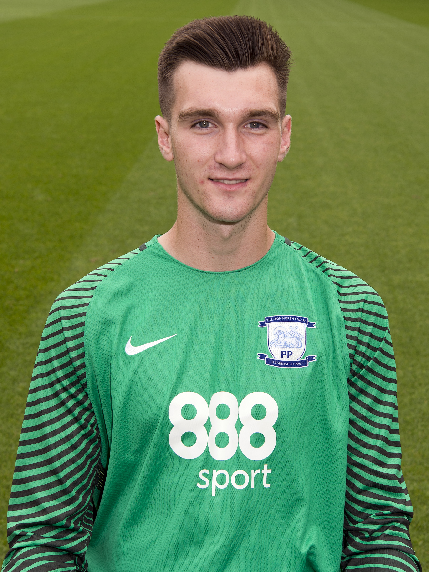 Mathew Hudson in Preston North End F.C. keeper kit, 2016